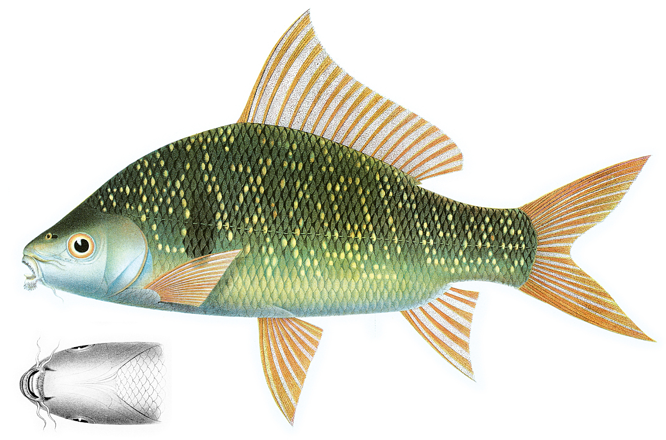 Osteochilus melanopleurus, described in the original publication as Rohita (Rohita) melanopleura